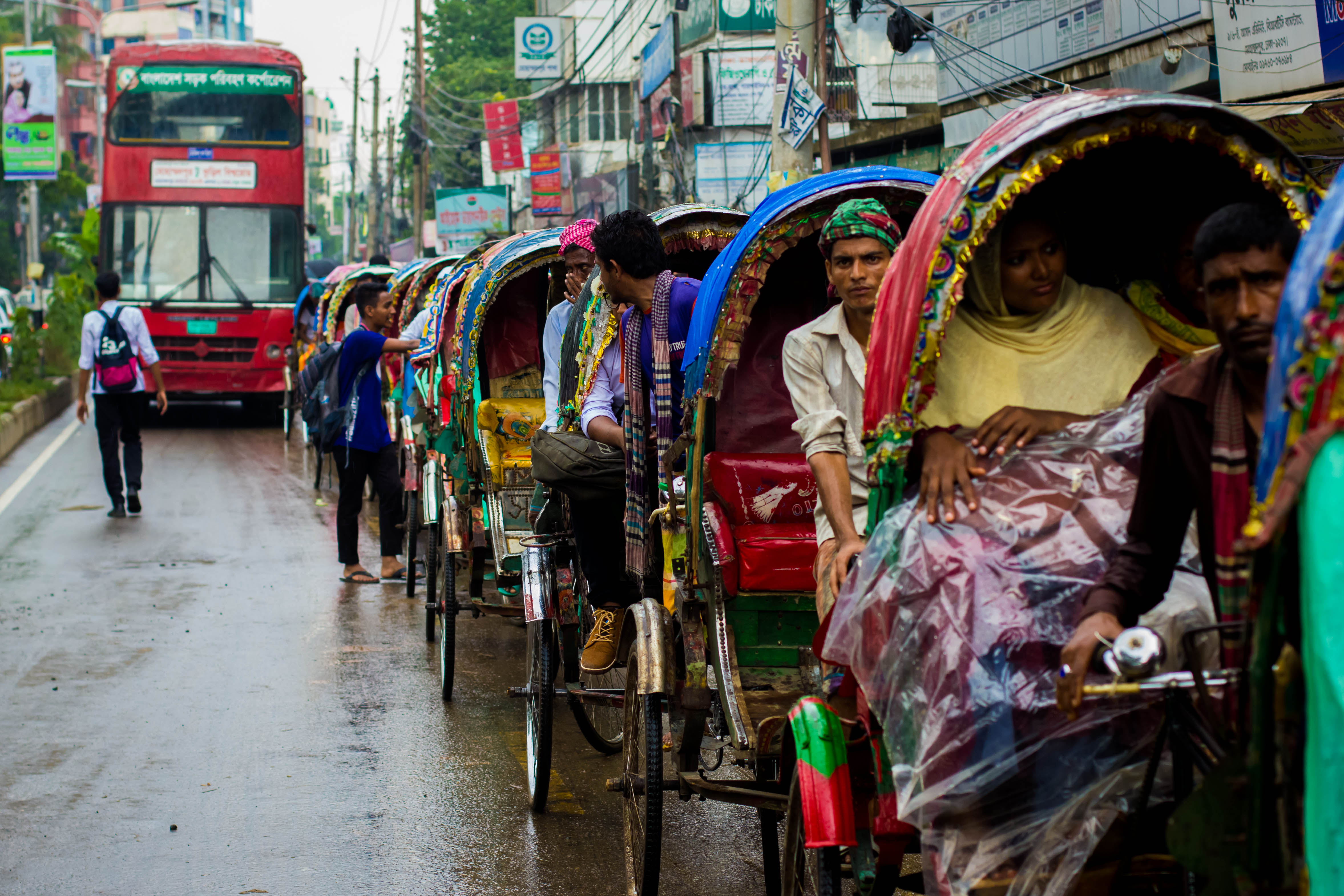 Bangladesh road safety protests